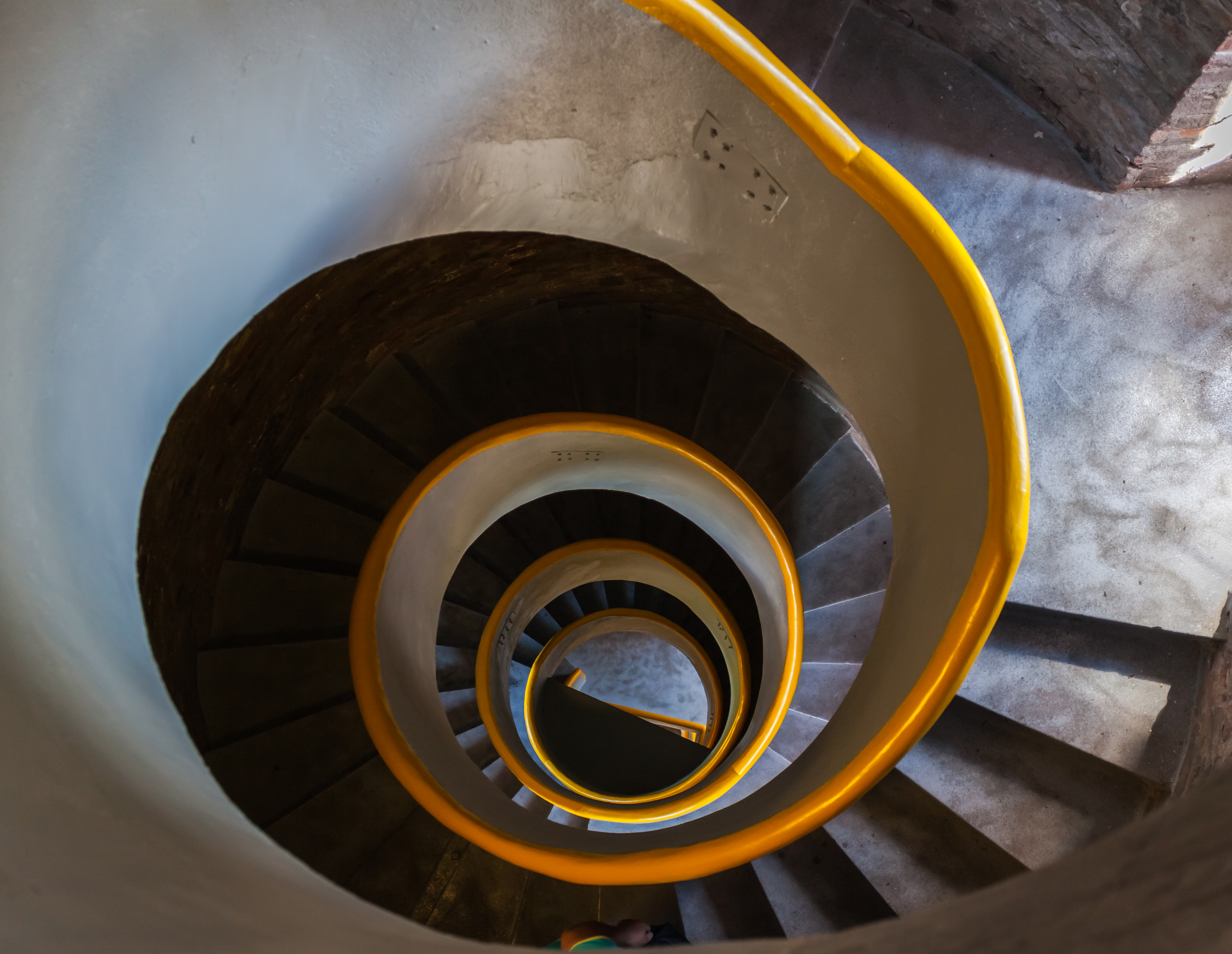 Hel Lighthouse, Poland